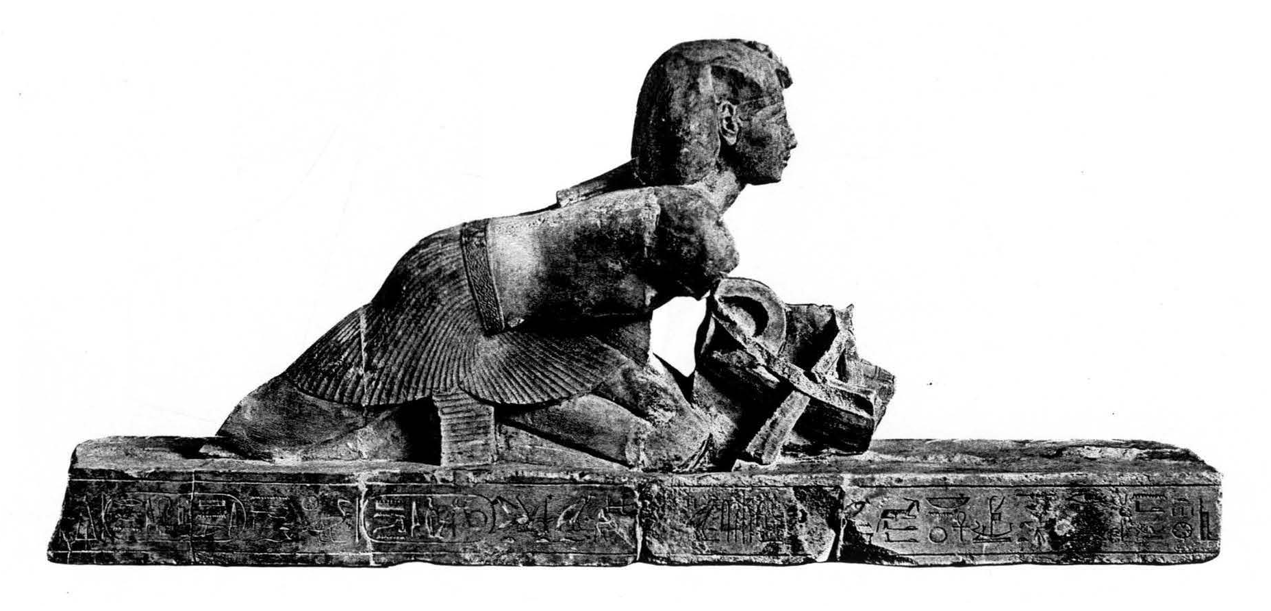 Statue of Osorkon III pushing a bark of Sokari. Limestone, Found in 1904-05 in Karnak, great temple cachette, 23rd dynasty, Third intermediate period. Cairo, Egyptian Museum CG 42197 (JE 37426).